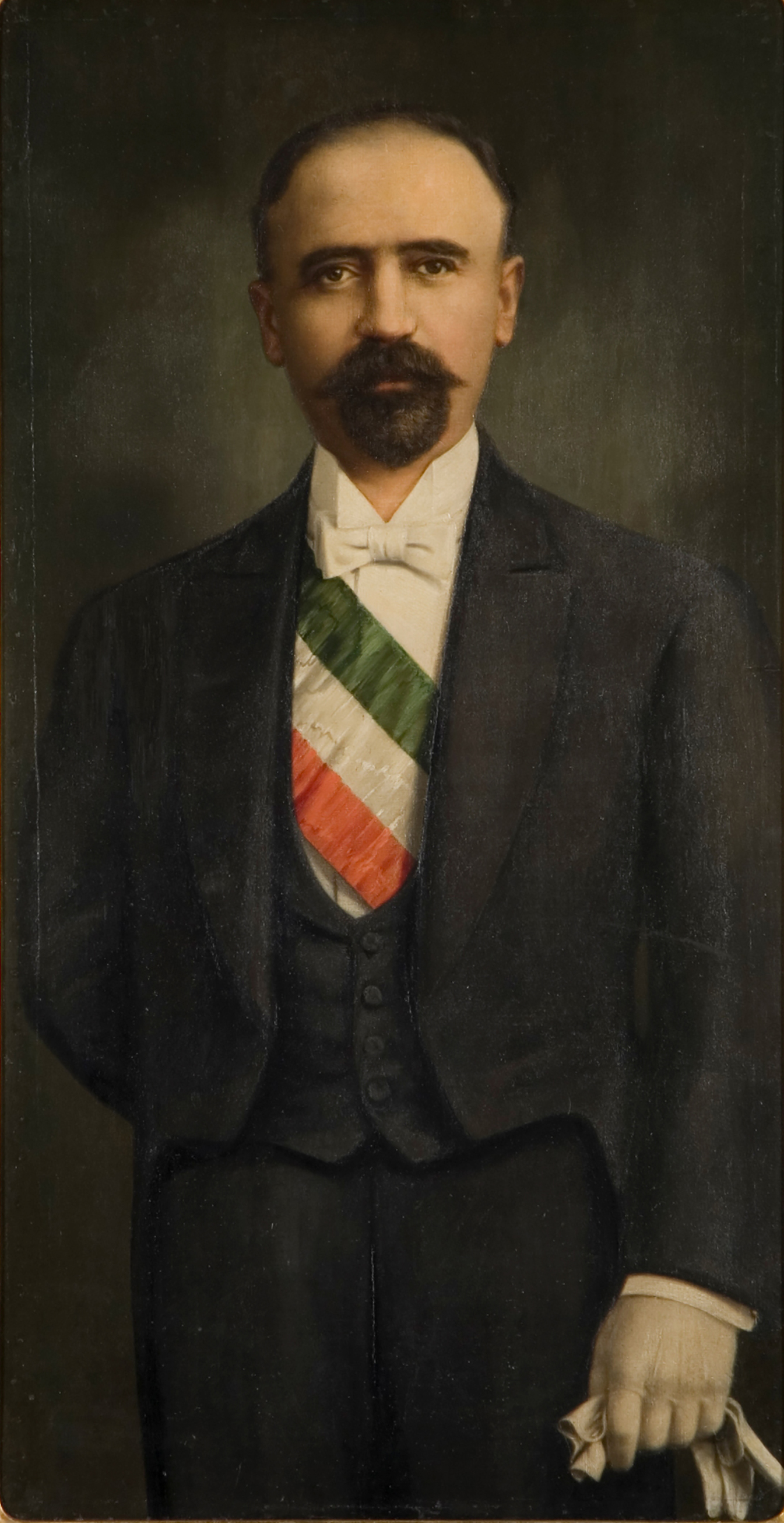 Francisco I. Madero was President of Mexico between 1911 and 1913, when he was assassinated during the events of the Ten Tragic Days. Born into an incredibly wealthy family, he was the leader of the 1910 revolution which overthrew General Díaz, who had governed Mexico for over thirty years. This official painting hangs in Castillo de Chapultepec, his former residence.